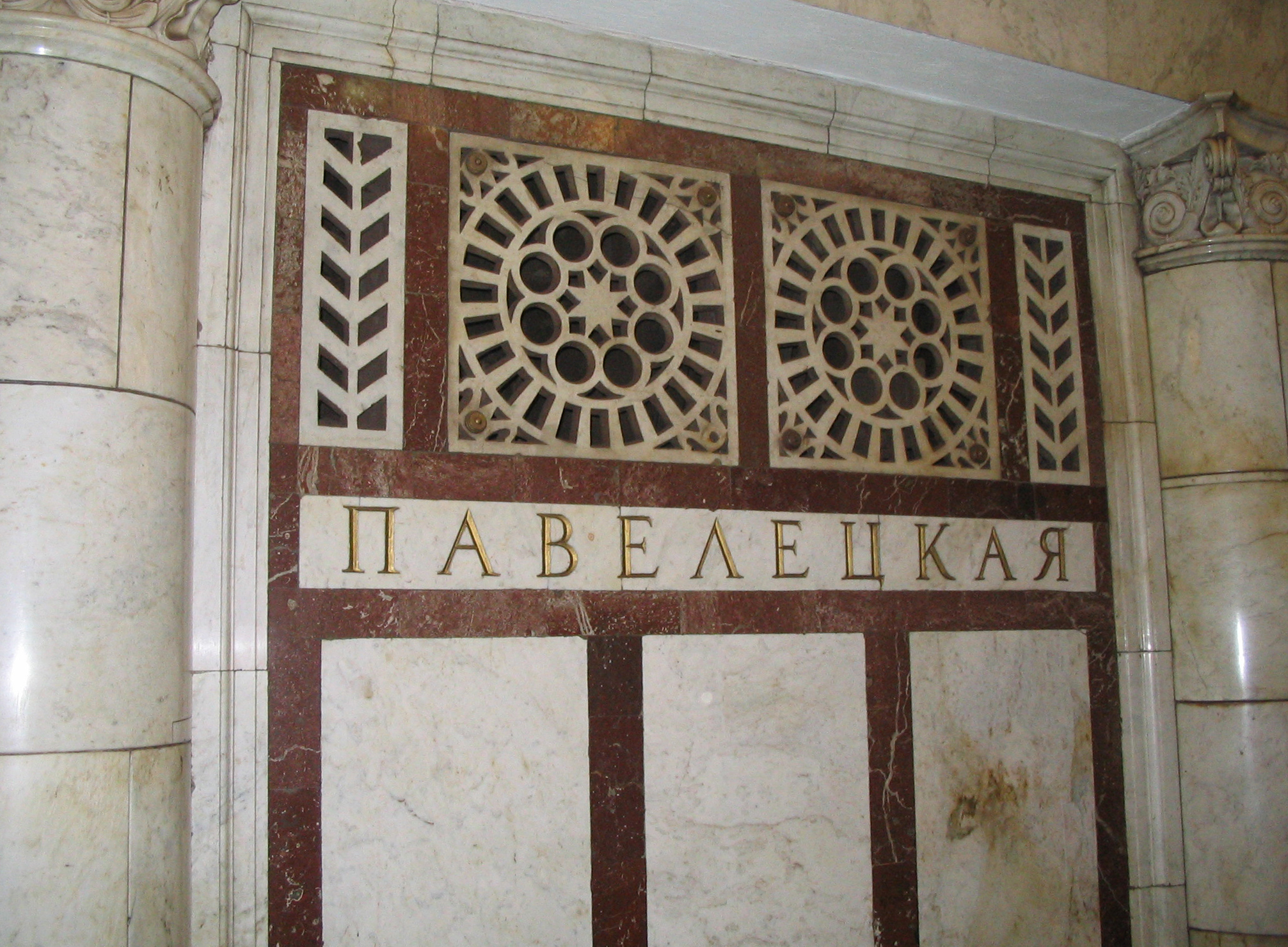 Image of the Paveletskaya subway station in Moscow